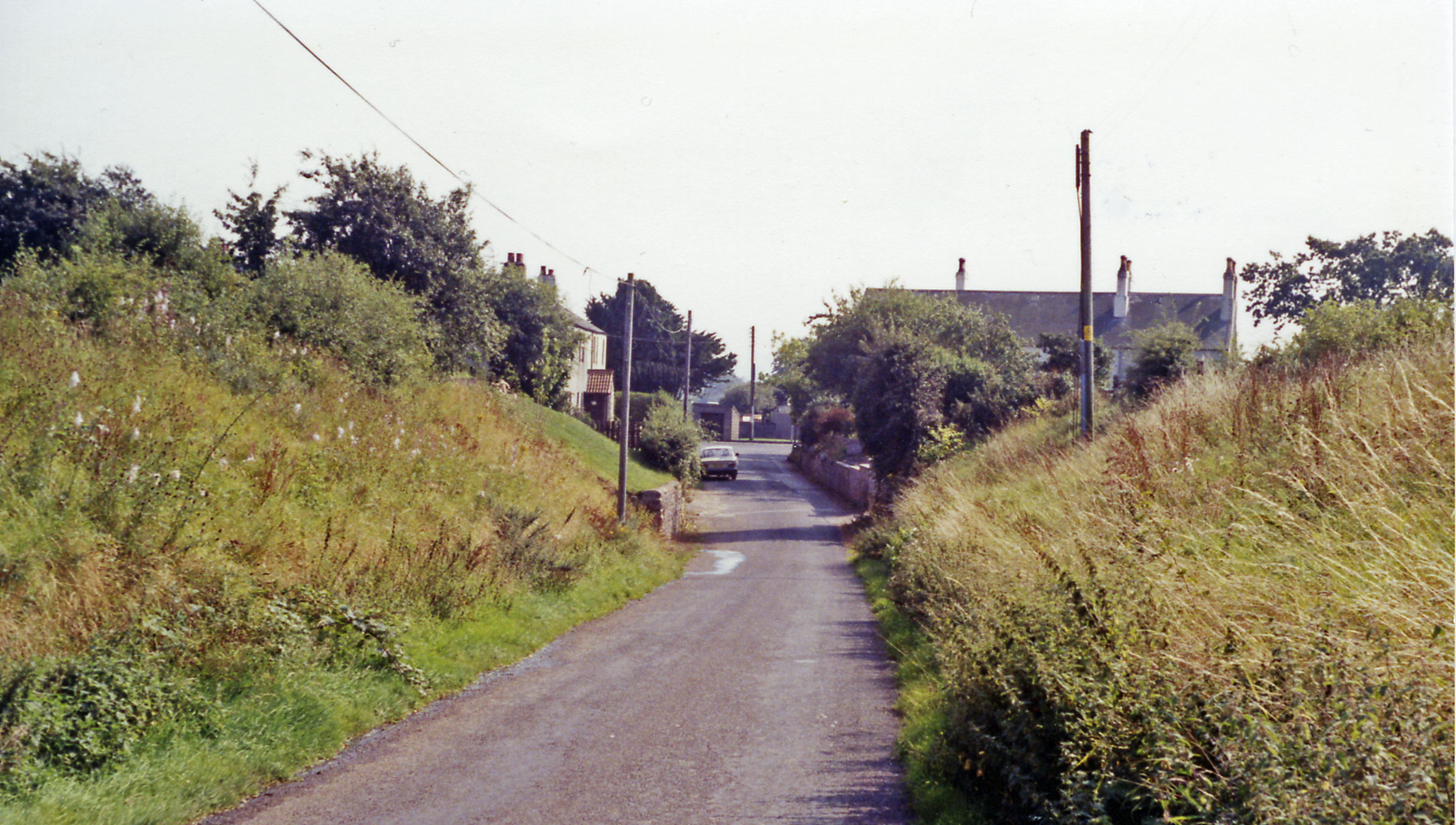 Site of Abbey Town station, 1991. Ex-NBR Carlisle (left) - Silloth (right) line, closed completely 7/9/64: the bridge abutments remain, the station having been up to the left and a mile further on had been Abbey Junction (see NY1851 : Abbey Junction station (site/remains)).